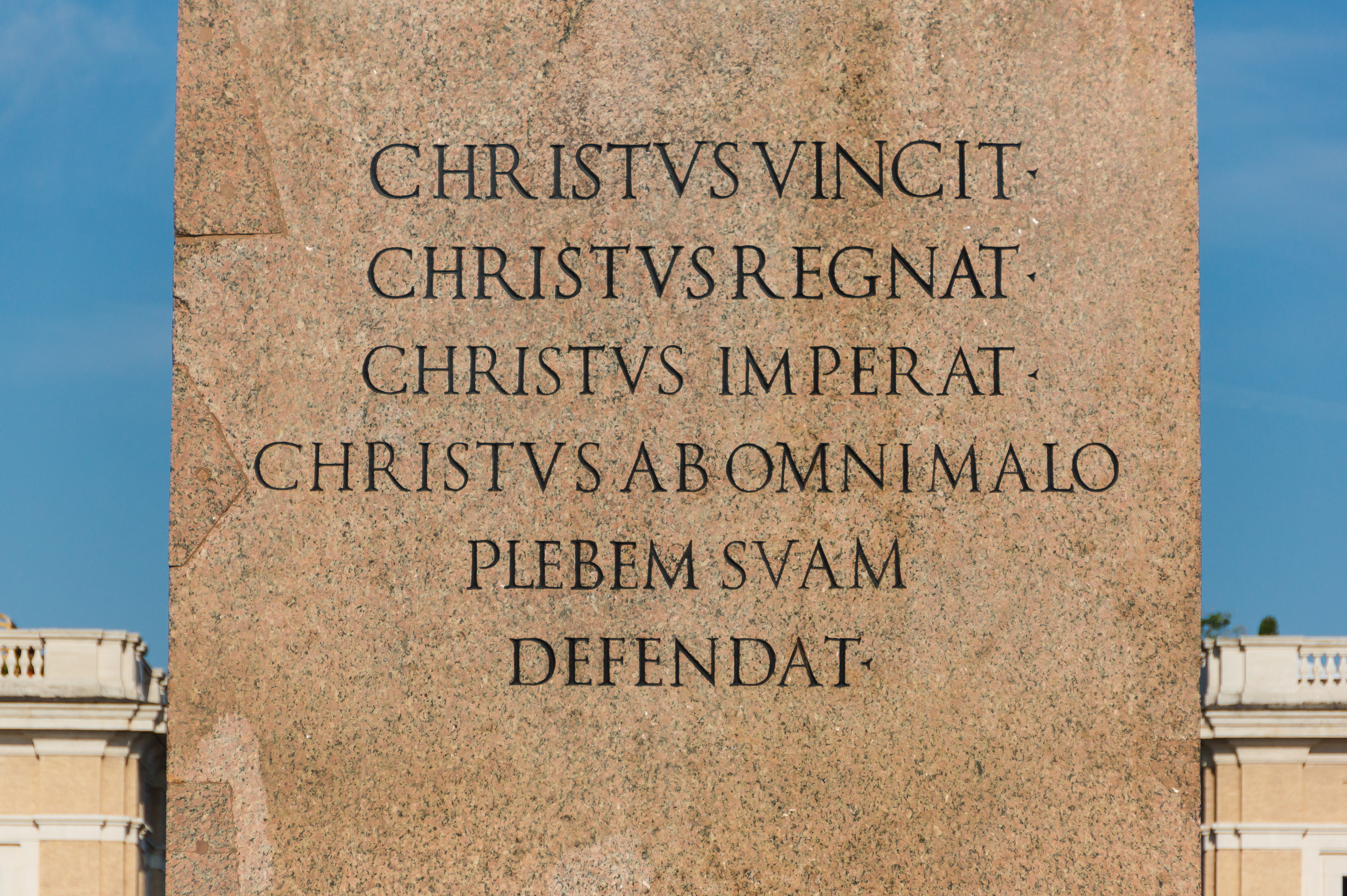 Christian latin text on the pedestal of the obelisk at Saint Peter's square, Vatican City.